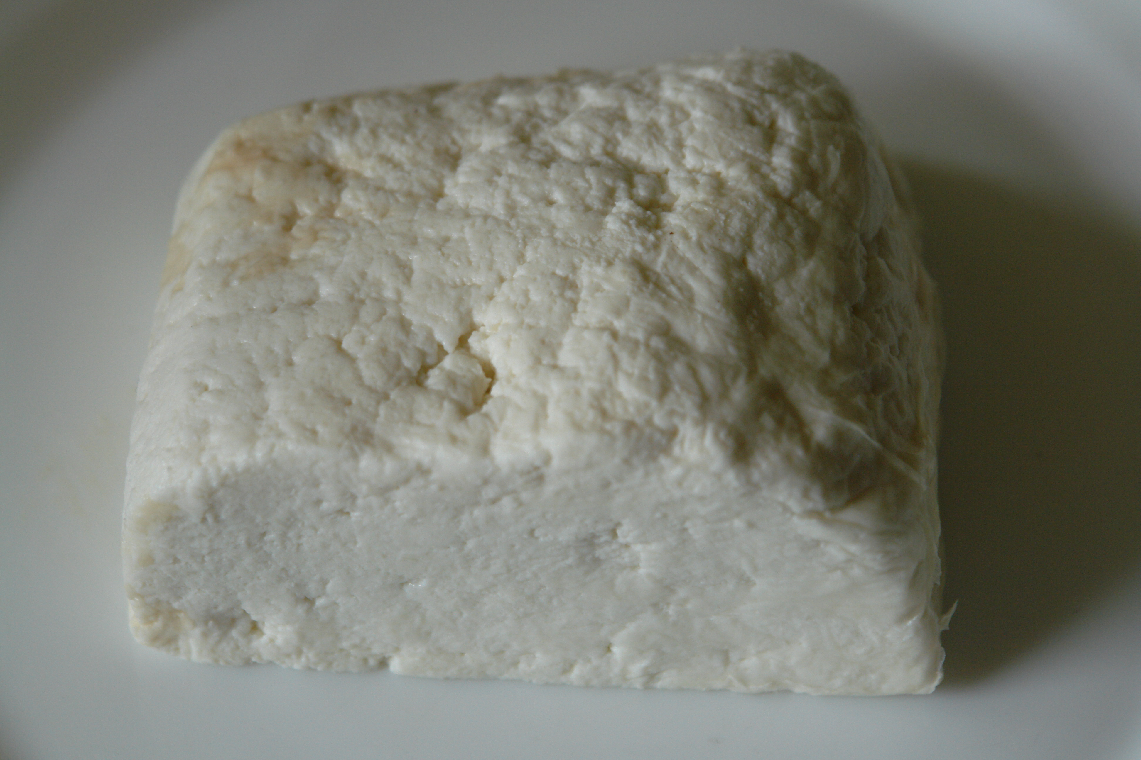 Serac cheese.